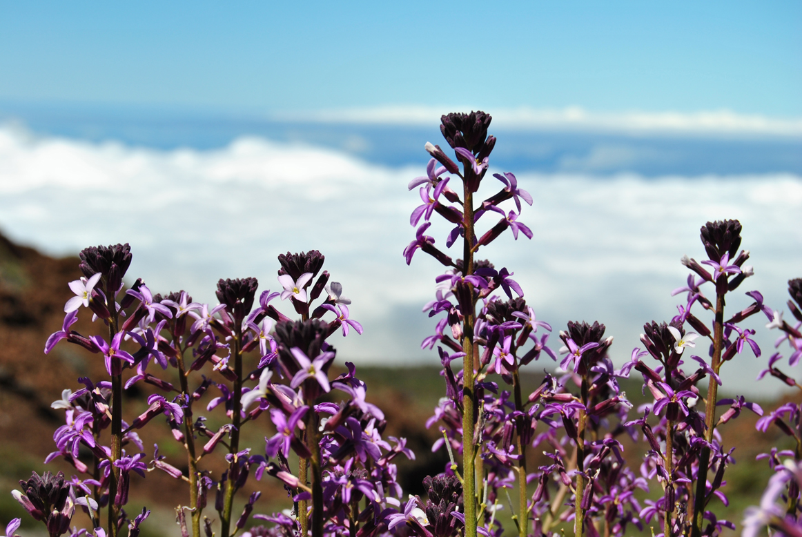 Alhelí del Teide